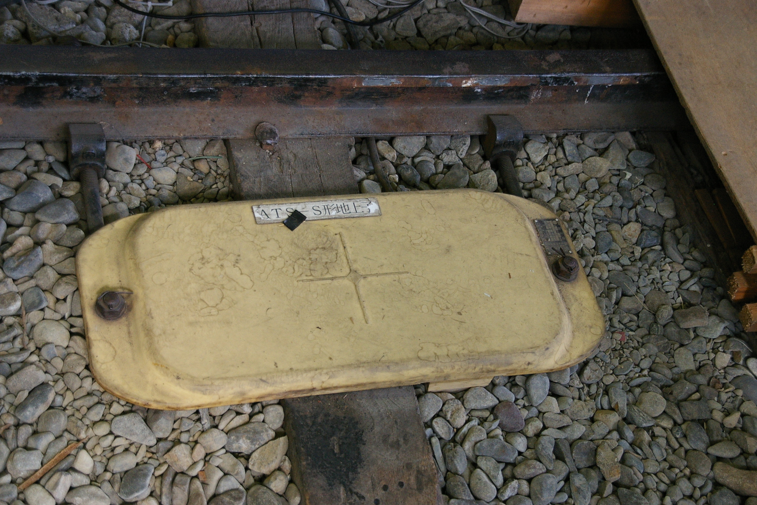 ATS-S unit exhibiting in JR Hokkaido employee training center.